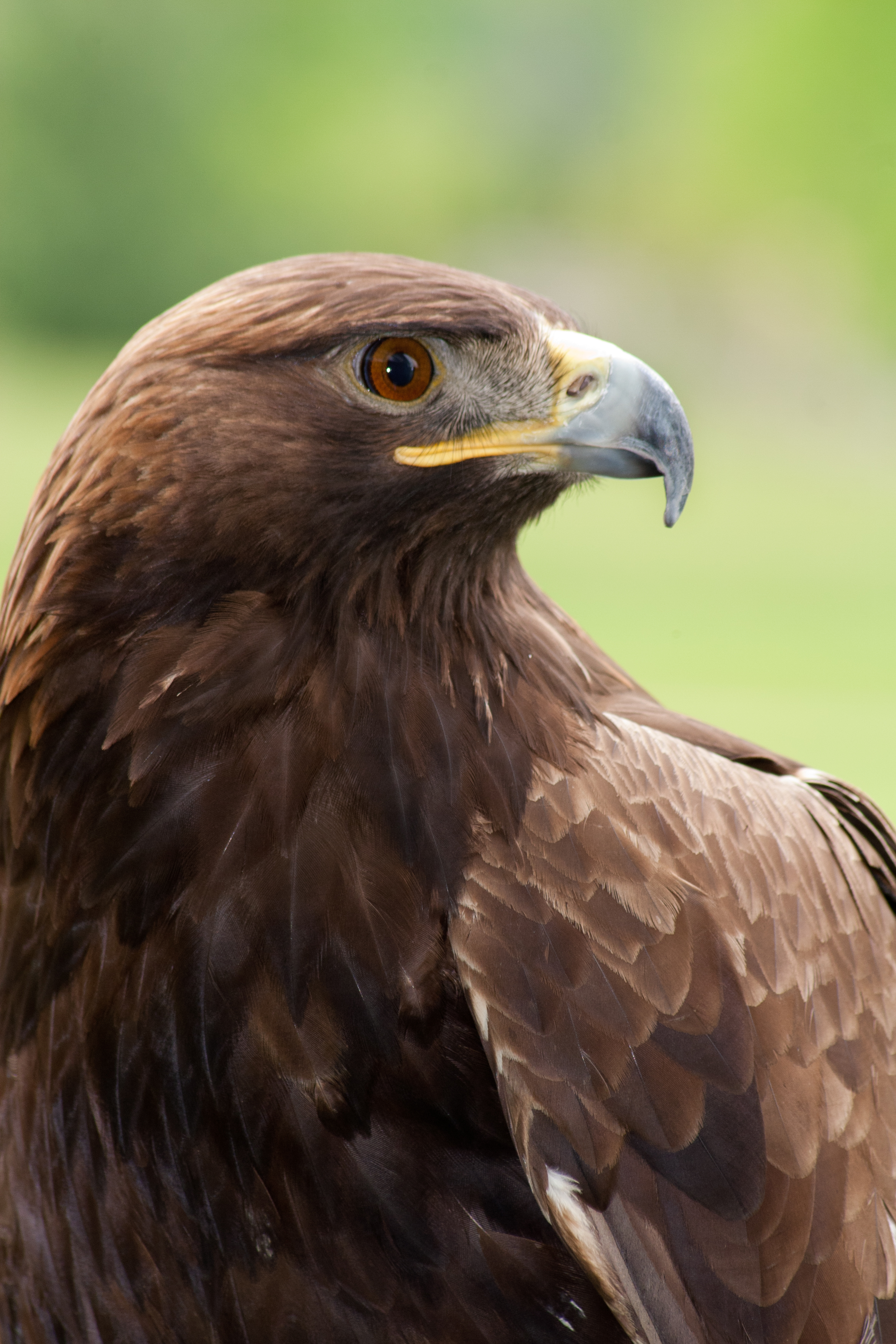 From Wilderness Road State Park's highly successful Remarkable Raptors program.